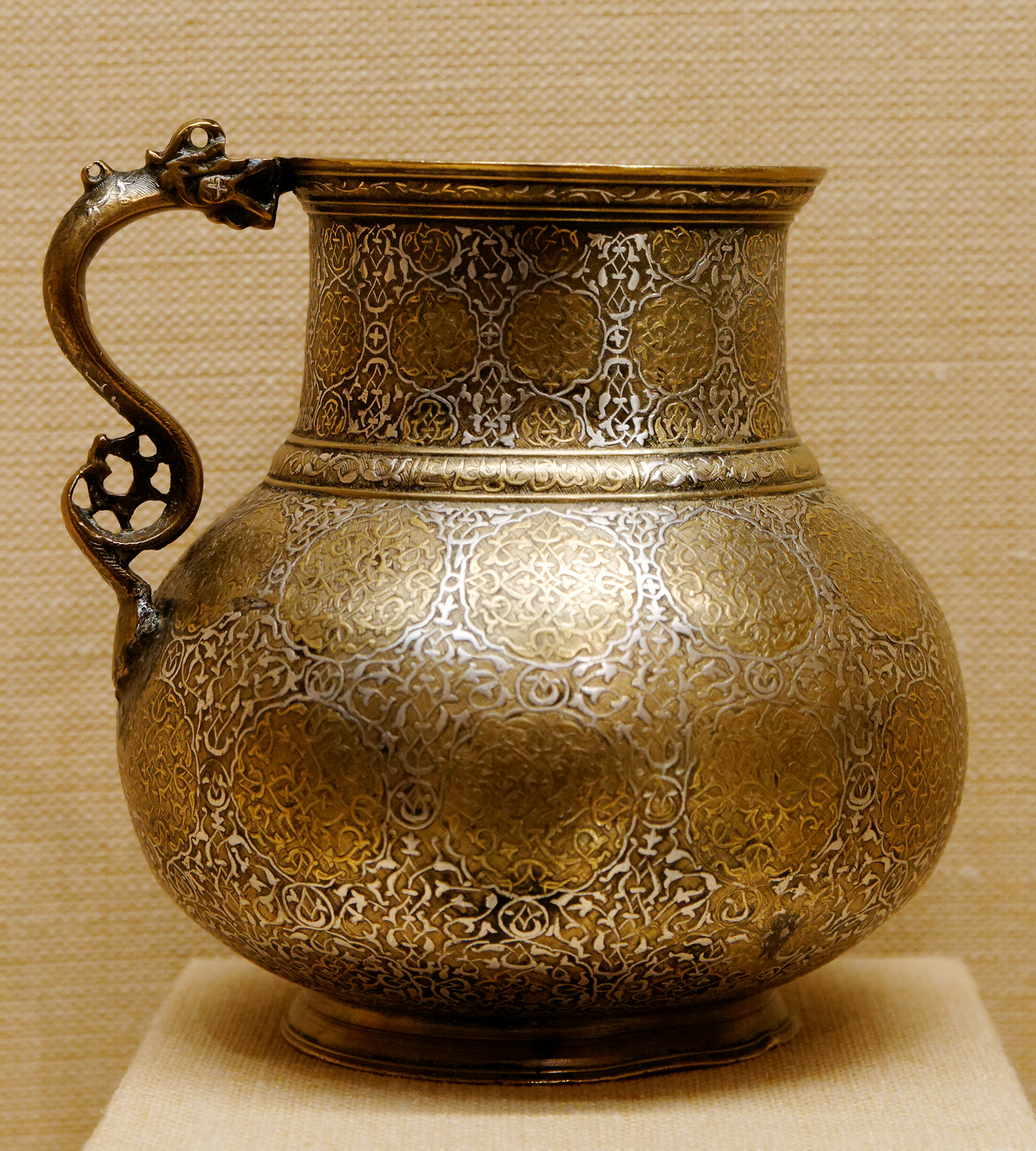 Dragon-handled jug.